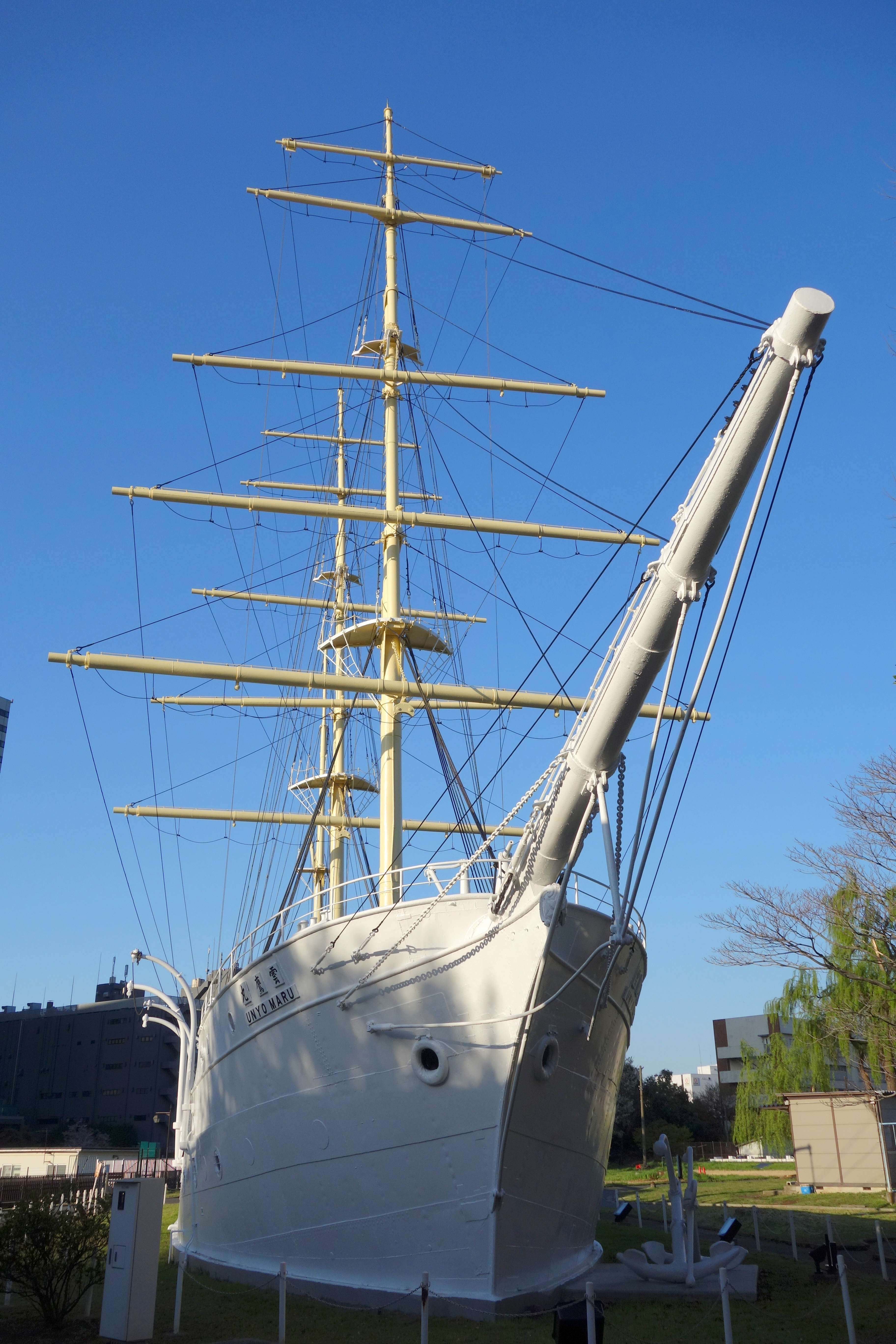 Unyo Maru (ship, 1909) - Tokyo University of Marine Science and Technology - Tokyo, Japan.